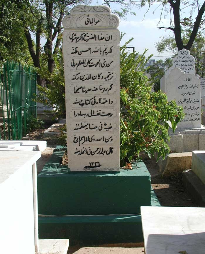 The grave of sheikh Abdulrahman Al-hout in the Bashoura Cemetery